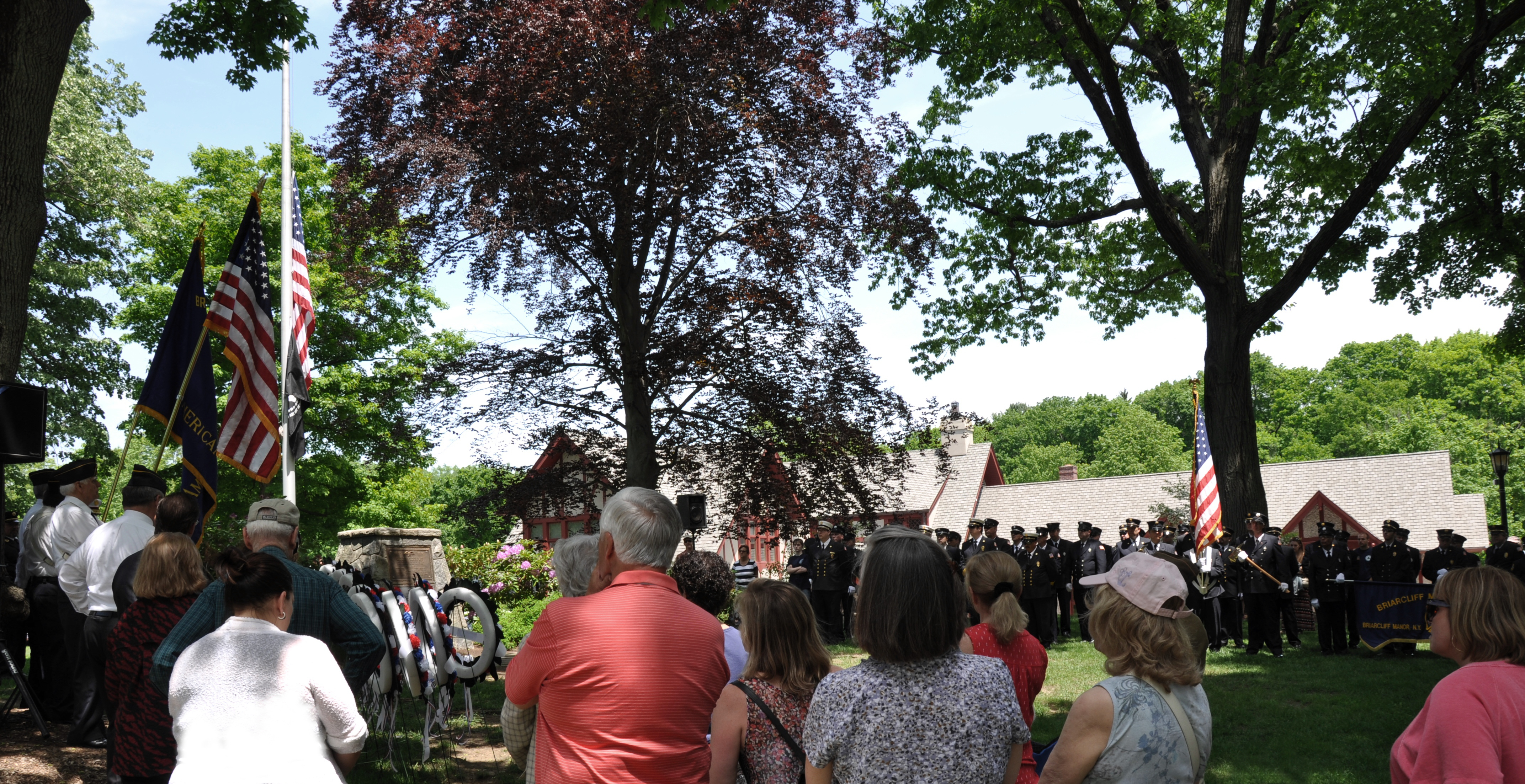 Briarcliff Manor Fire Department members, Briarcliff Manor American Legion Post 1054, and other village residents. Taken Memorial Day, Monday May 26, 2014, at Briarcliff Manor's annual Memorial Day ceremony at the Walter W. Law Memorial Park.